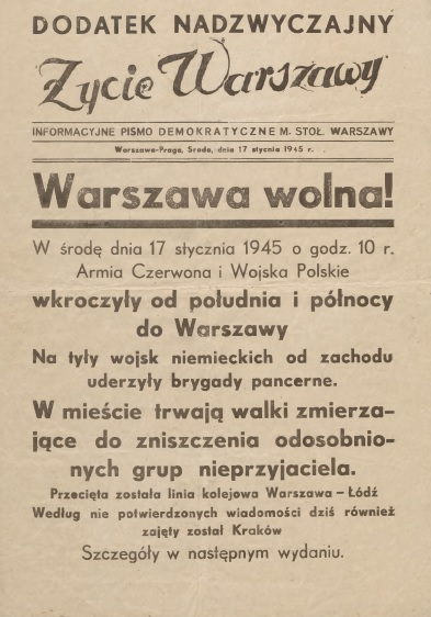 Extra edition of "Życie Warszawy"